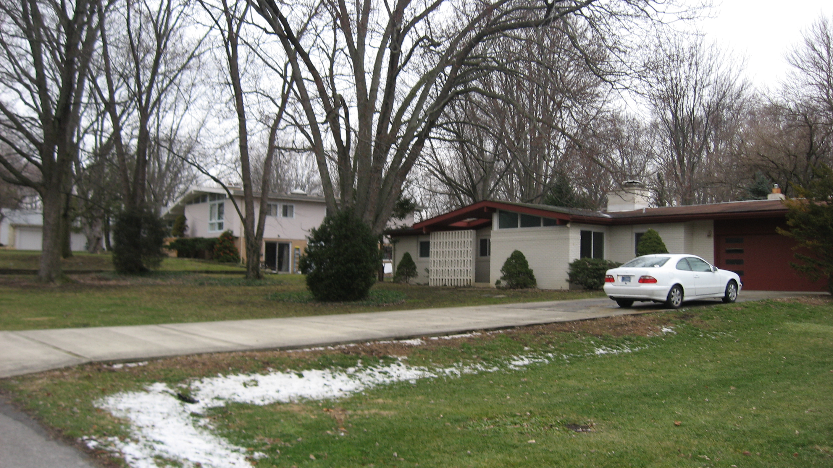 Houses on Thornhurst Drive in Carmel, Indiana, United States. These houses are part of the Thornhurst Addition, a historic district that is listed on the National Register of Historic Places.